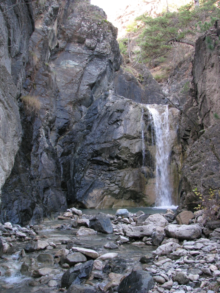 Waterfall in Venetikos river, near Mesolouri vilage, Grevena prefecture, Greece